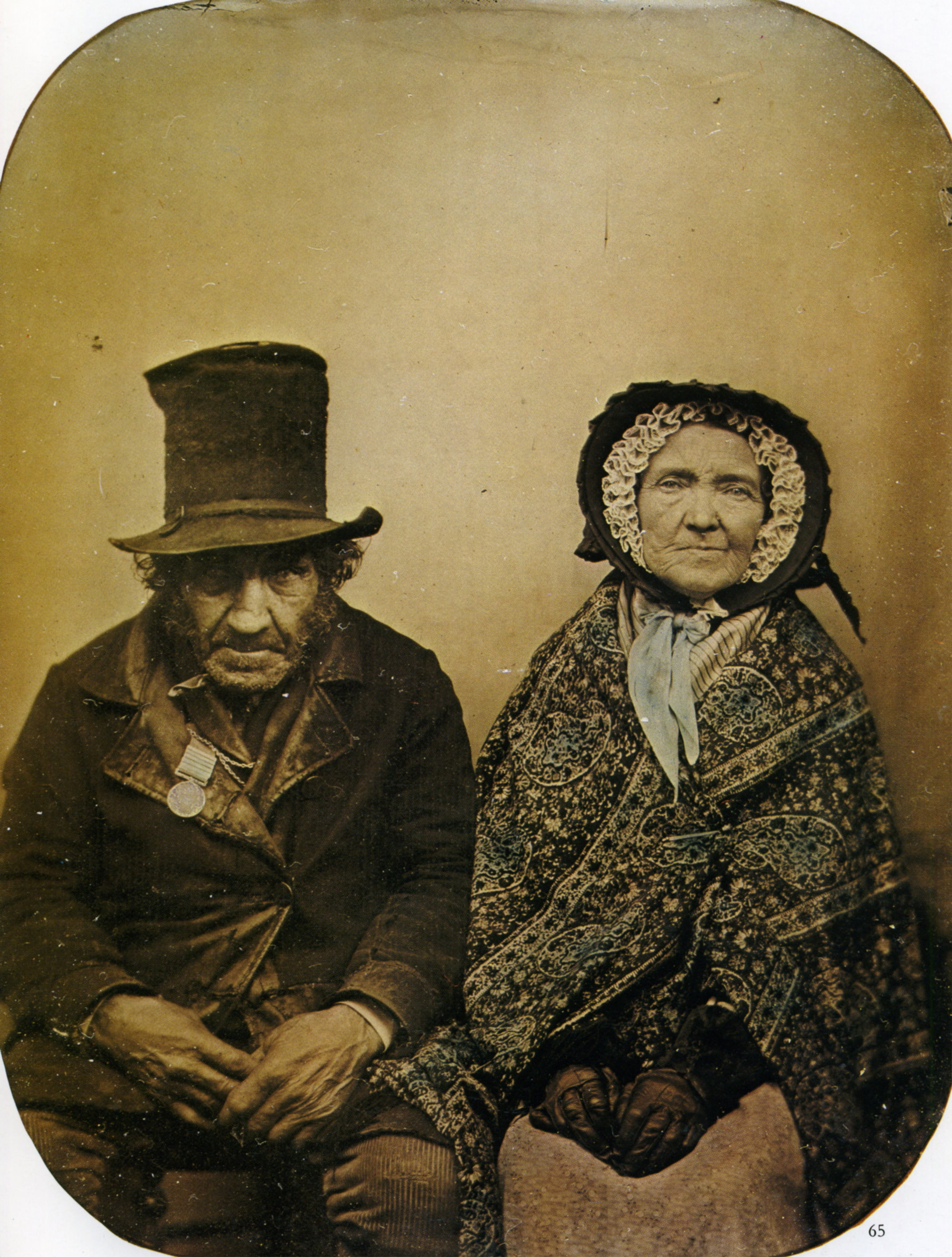 veteran and his wife. He is wearing a top hat, coat and medal, she a bonnet with ruffles, paisley shawl, and gloves. Notes: He is wearing what appears to be a British Military General Service Medal with six clasps and is a veteran of the Peninsular Wars. Any previous suggestion that this shows an "American Civil War" (1861-1865) veteran is incorrect.